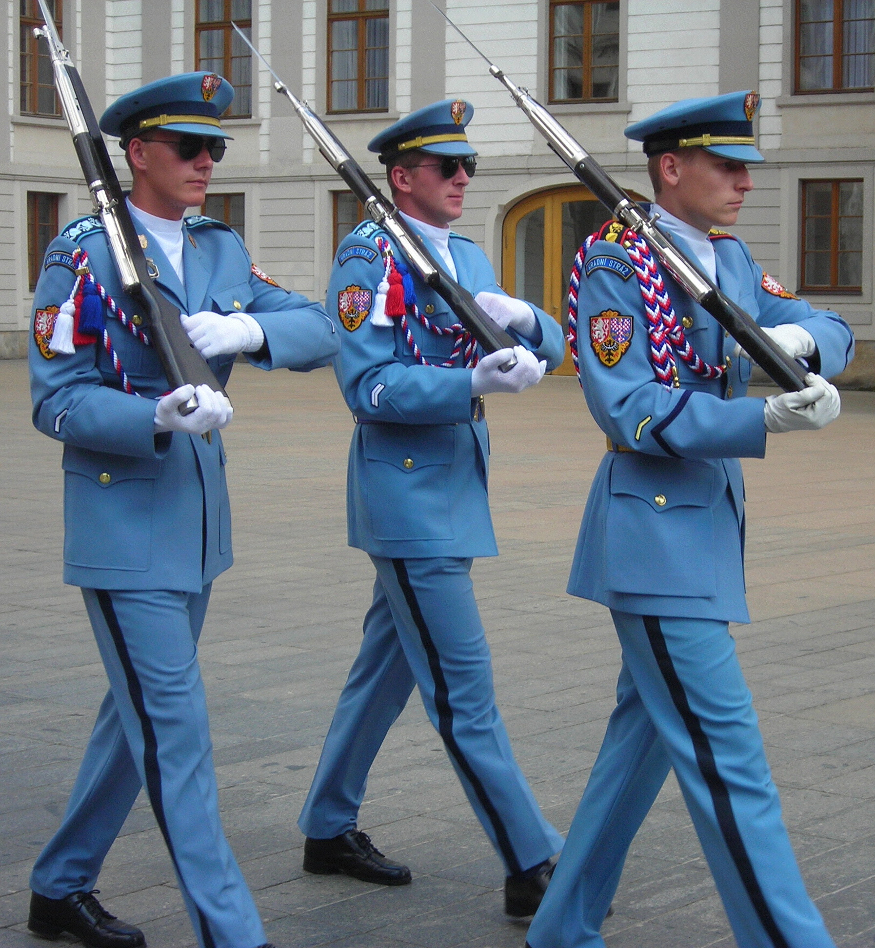 Guards outside Prague Castle, Czech Republic